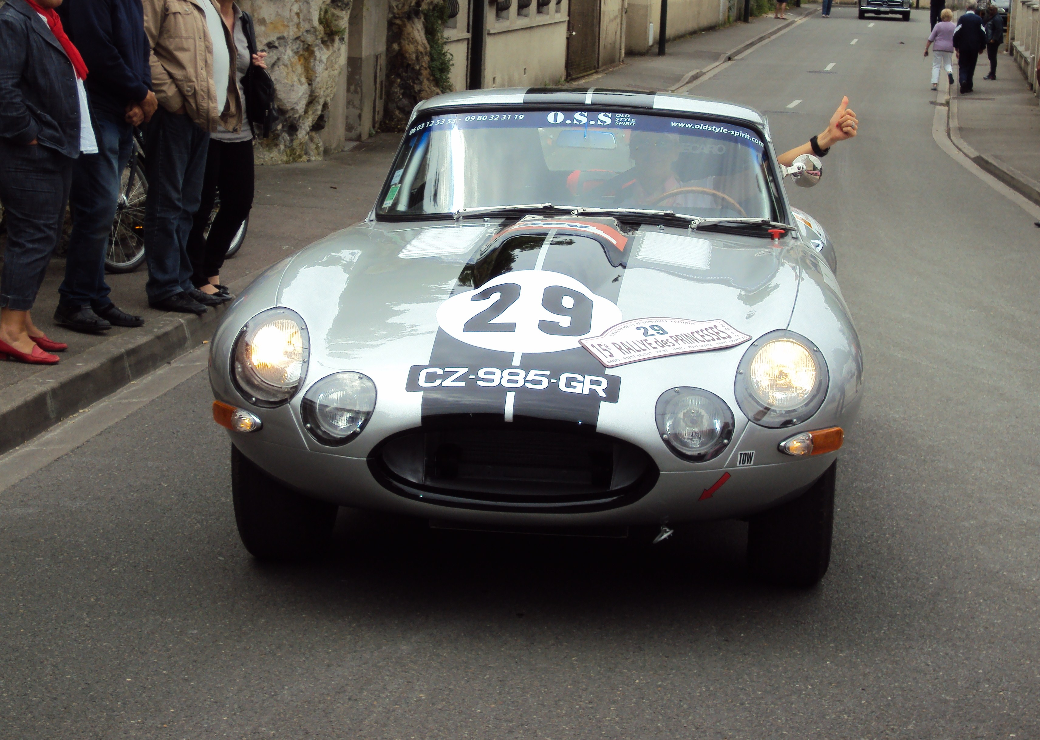 A 1963 Jaguar E-Type at the 2014 Rallye des Princesses.